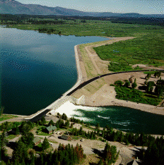 Aerial view of Jackson Lake Dam on Jackson Lake in Teton County, Wyoming, USA. The dam is situated within Grand Teton National Park. The Snake River flows out of Jackson Lake through this dam. The dam was constructed to raise the natural level of Jackson Lake to store water for agricultural irrigation in the Snake River basin in Idaho. View is to the northwest. Original GIF image changed to JPG by contributor.